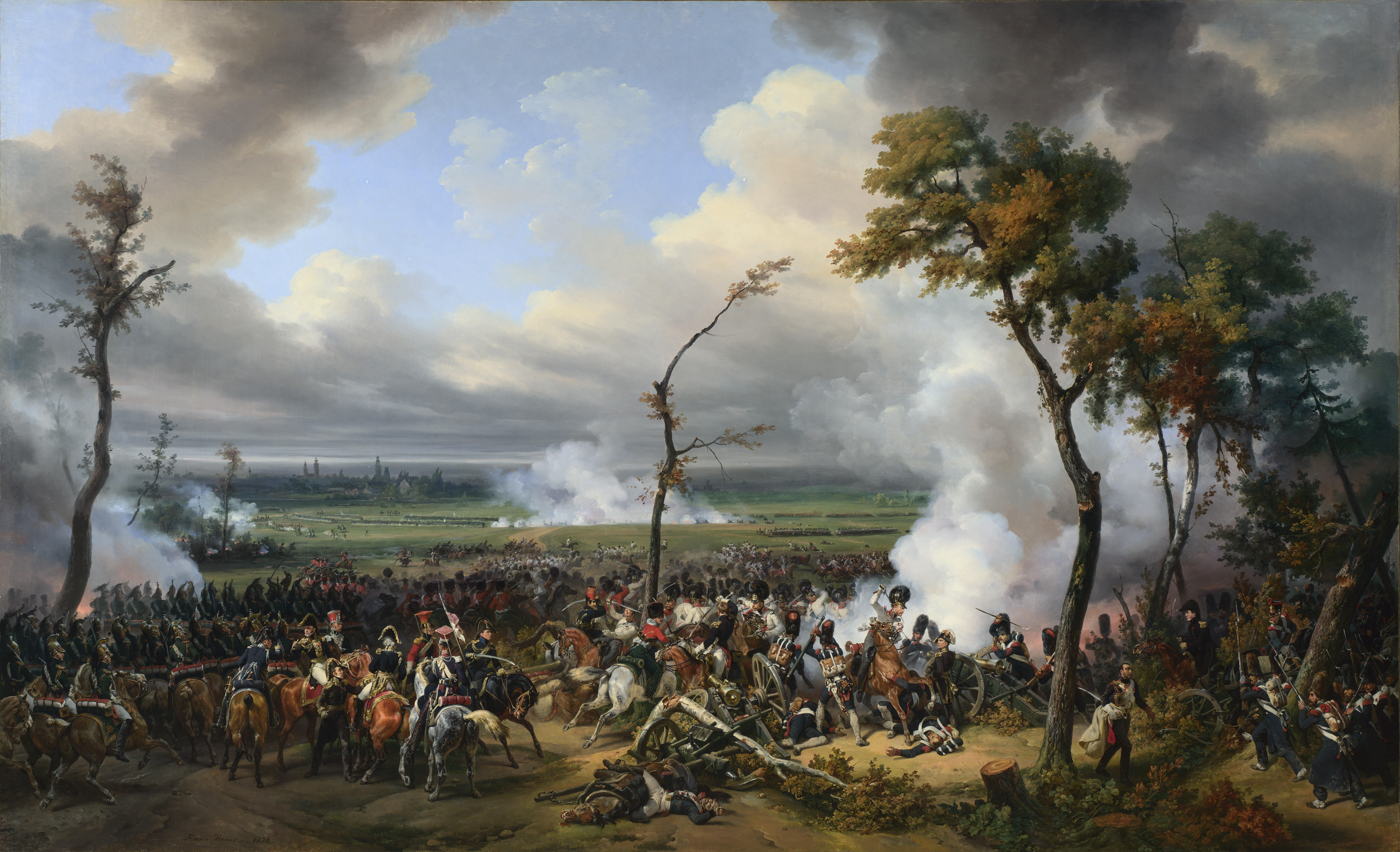 Battle of Hanau (30-31 October 1813), took part between Austro-Bavarian forces and French forces. This scene illustrates the attack of the Austro-Bavarian cavalry charging the French Grand Battery. Commanding the French Grand Battery is General Antoine Drouot (depicted on the right side of the painting, with an Austrian cavalryman meaning to strike him down). It also illustrates the French Guard cavalry countercharging the enemy cavalry, with its commander, General Nansouty (illustrated on the left-centre of the painting, with his back to the viewer) directing operations.